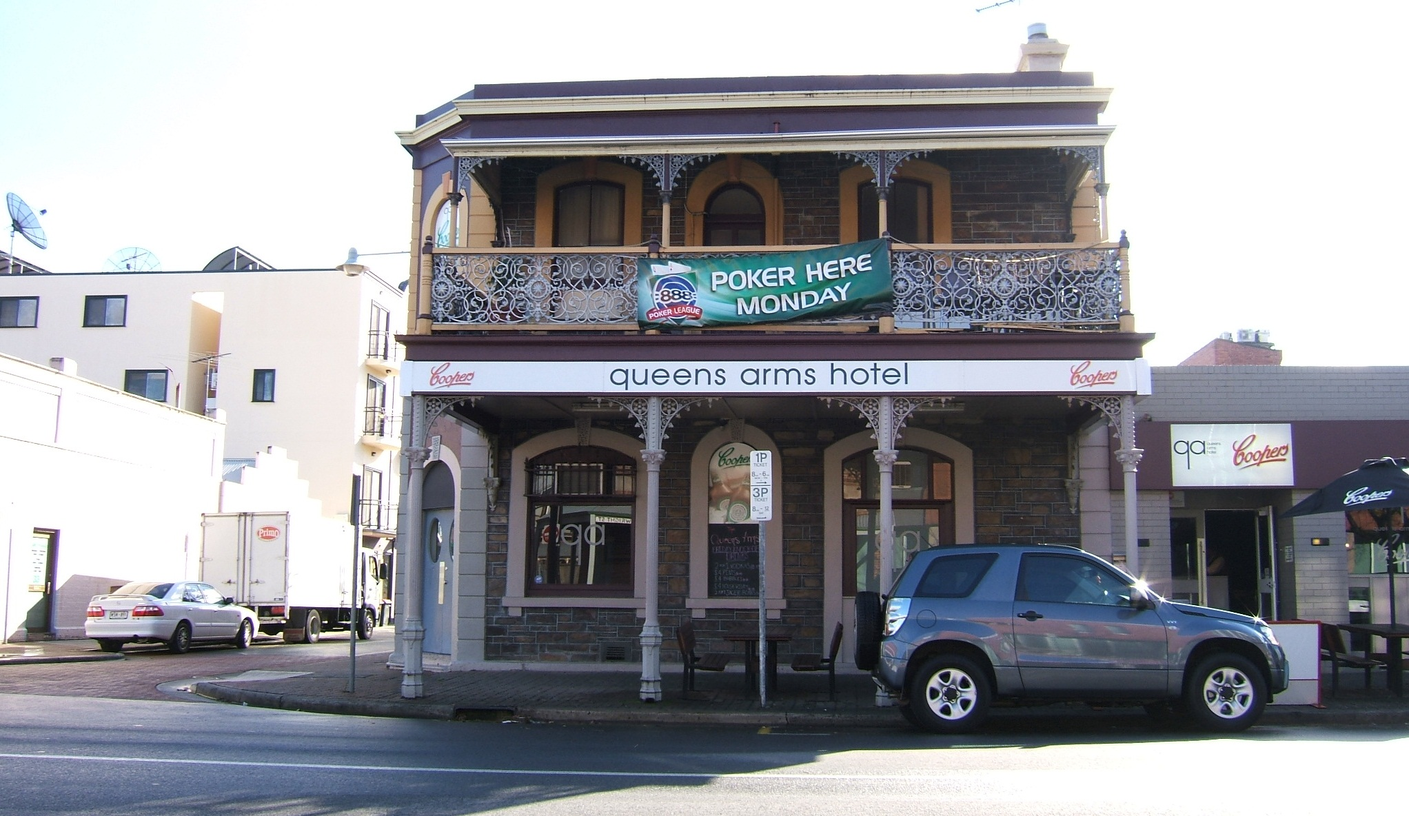 Wright St, Adelaide (formerly the Queen's Arms Hotel). Now known at the Wright Street Hotel.